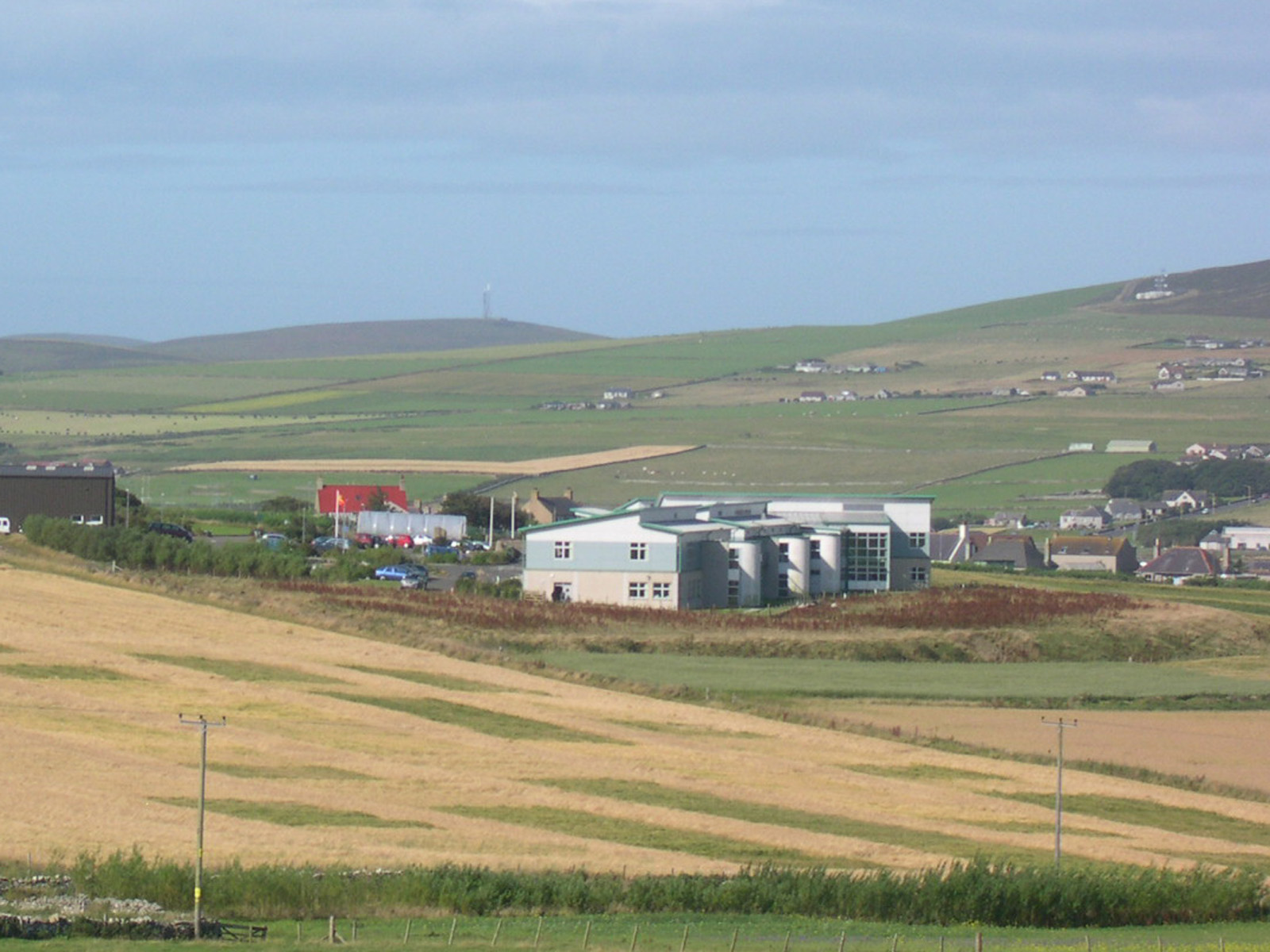 In the foreground is a field of bere barley ready to harvest, with unripe green patches of other varieties.